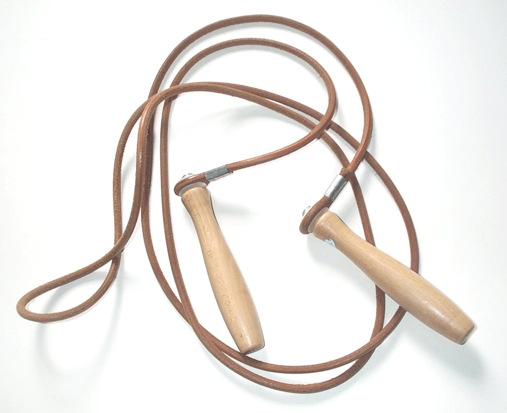 A leather skipping rope as used in boxing training.